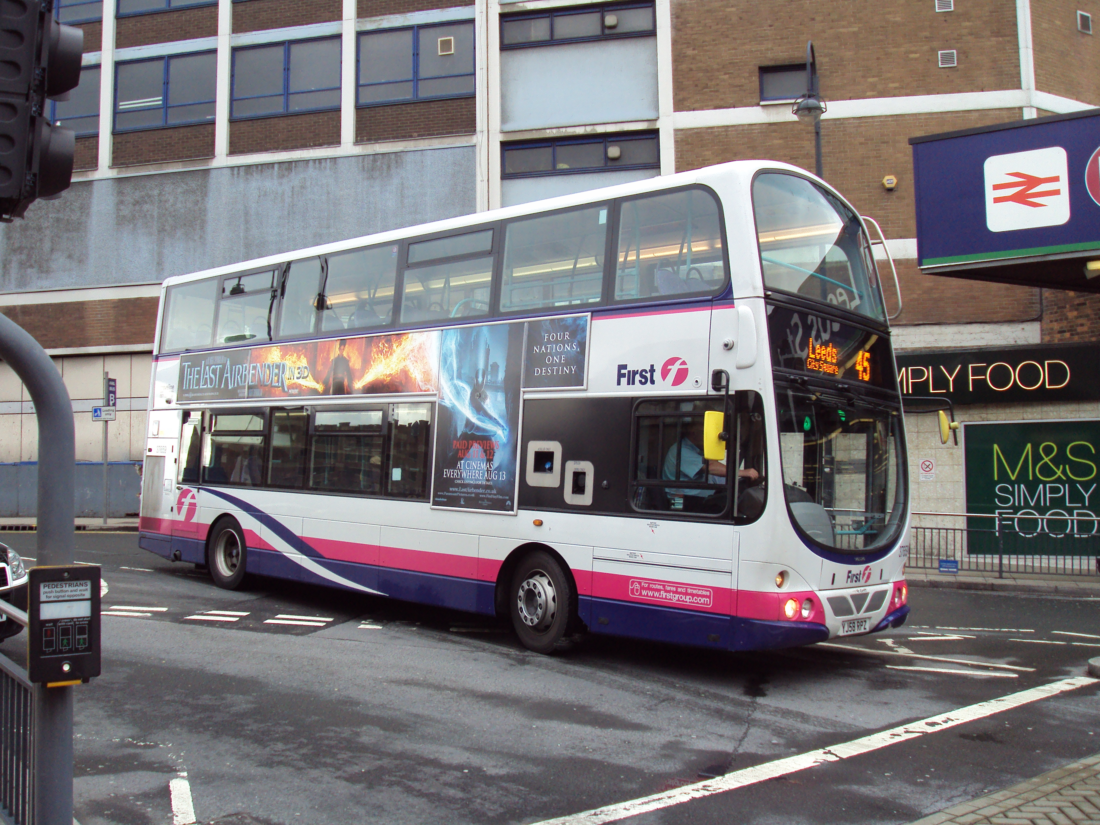 Bus outside Leeds railway station.